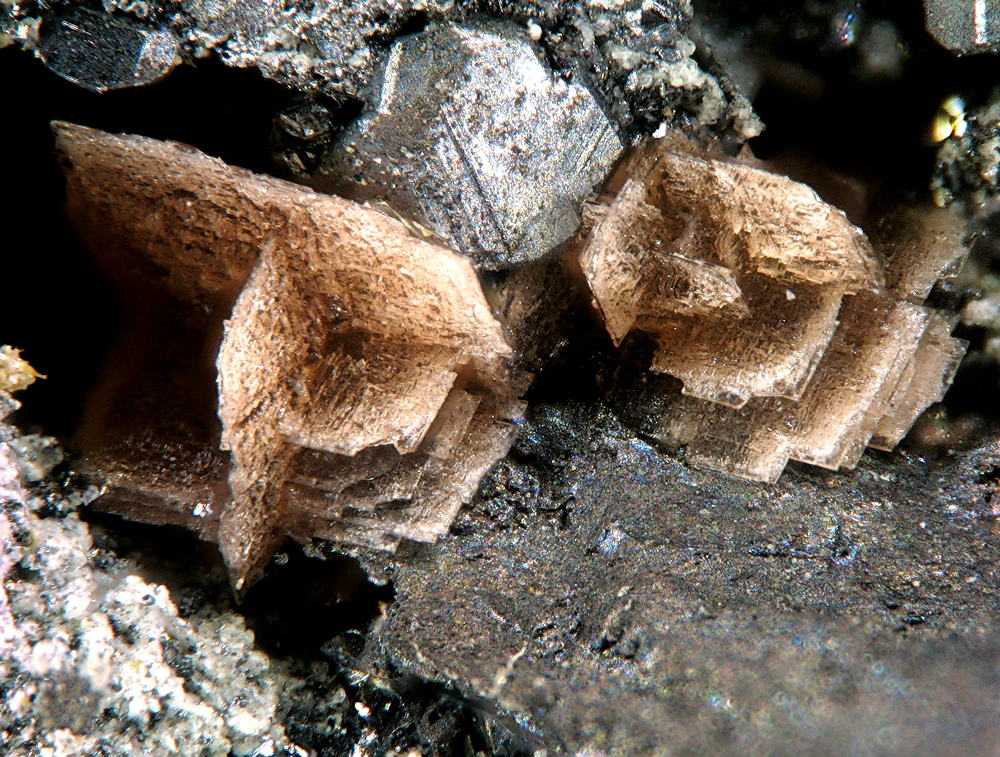 Söhngeite Locality: Tsumeb Mine (Tsumcorp Mine), Tsumeb, Otjikoto Region (Oshikoto), Namibia Picture width 6.5 mm. Collection and photograph Christian Rewitzer